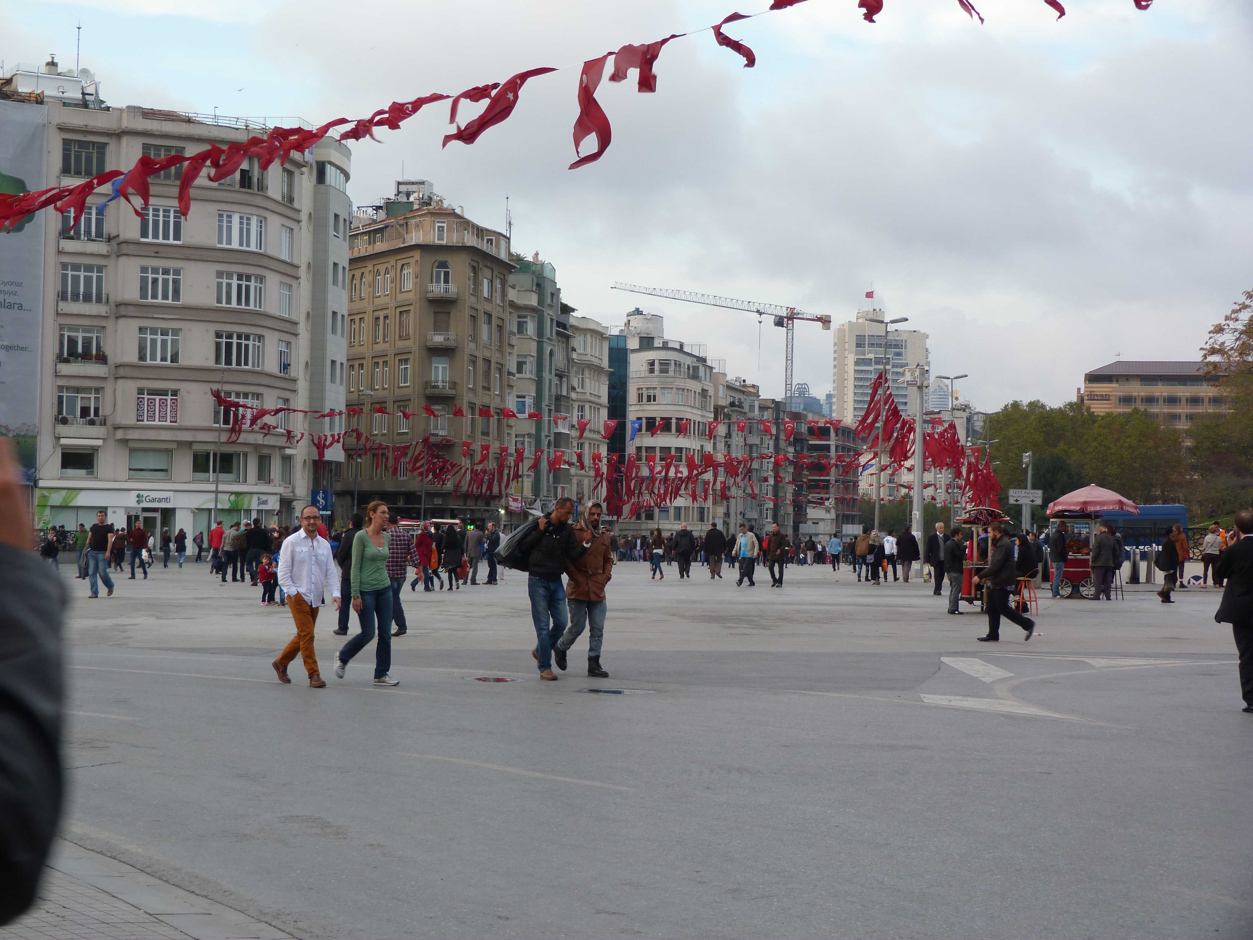 Live on the 24th of october, 2014. Taksim square, the heart of modern Istanbul. (Taksim Meydani). At night. Monument of the Republic. (Mustafa Kemal Ataturk, Mikhail Frunze, Kliment Voroshilov) Republic of Turkey was proclaimed on the 29th of october, 1923 in Ankara, ©© Derzsi Elekes Andor, Budapest, 2014, Published in the Metapolisz DVD line. You are authorised to use this photo under Creative Commons – even for commercial, for profit purposes. The photo must be attributed to Derzsi Elekes Andor. All of the photos and vids in the Metapolisz DVD line are under Creative Commons and can be used even for commercial – for profit – purposes. Recommended Citation Derzsi Elekes Andor: Metapolisz DVD line